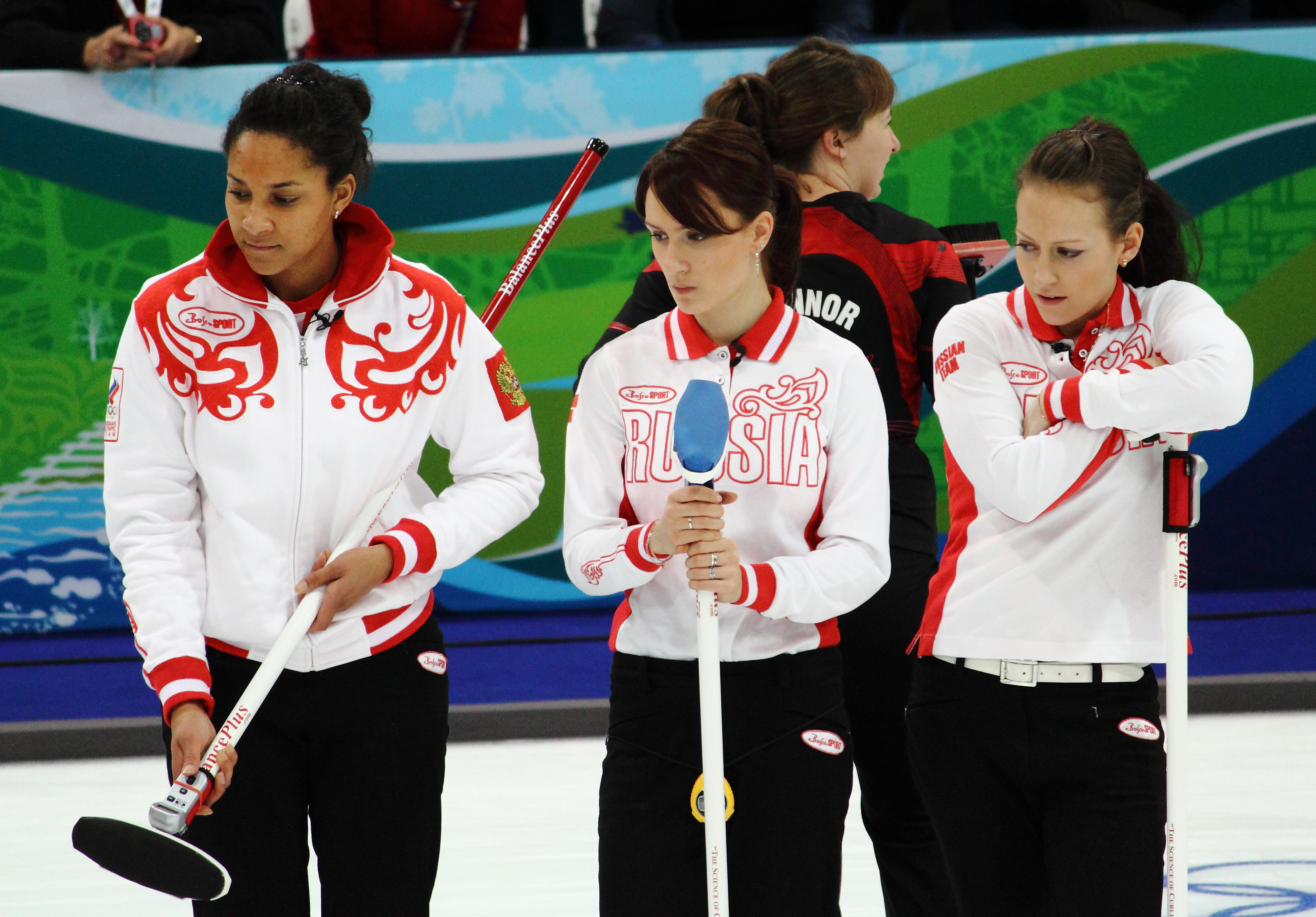 Nkeiruka Ezekh, Anna Sidorova and Ekaterina Galkina (left to right); 2010 Vancouver Olympic Games - Women's Curling - Preliminary from Vancouver Olympic Centre